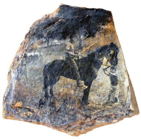 Steve Sabella, Till the End - Spirit of the Place. Photo emulsion on Jerusalem stone. UNIQUE (one original). This is the work that preceded Sabella's project of Jerusalem in Exile, where he theorised that Jerusalem has become a floating disappearing image.